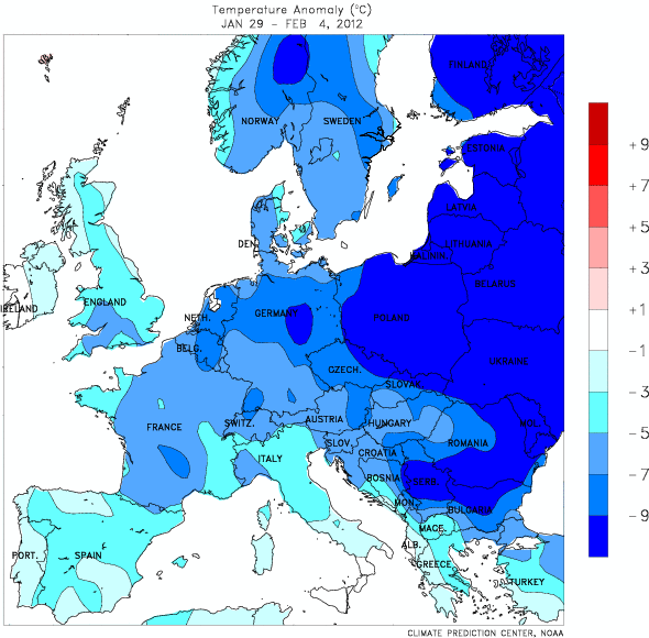 Europe: Temperature anomaly January 29 - February 4, 2012, computer generated contours, based on preliminary data